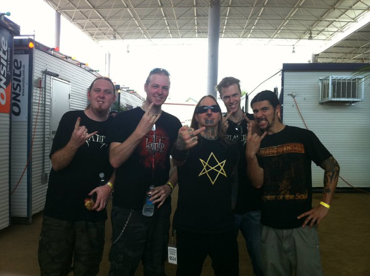 Tria Mera with Dez of Devildriver 2011